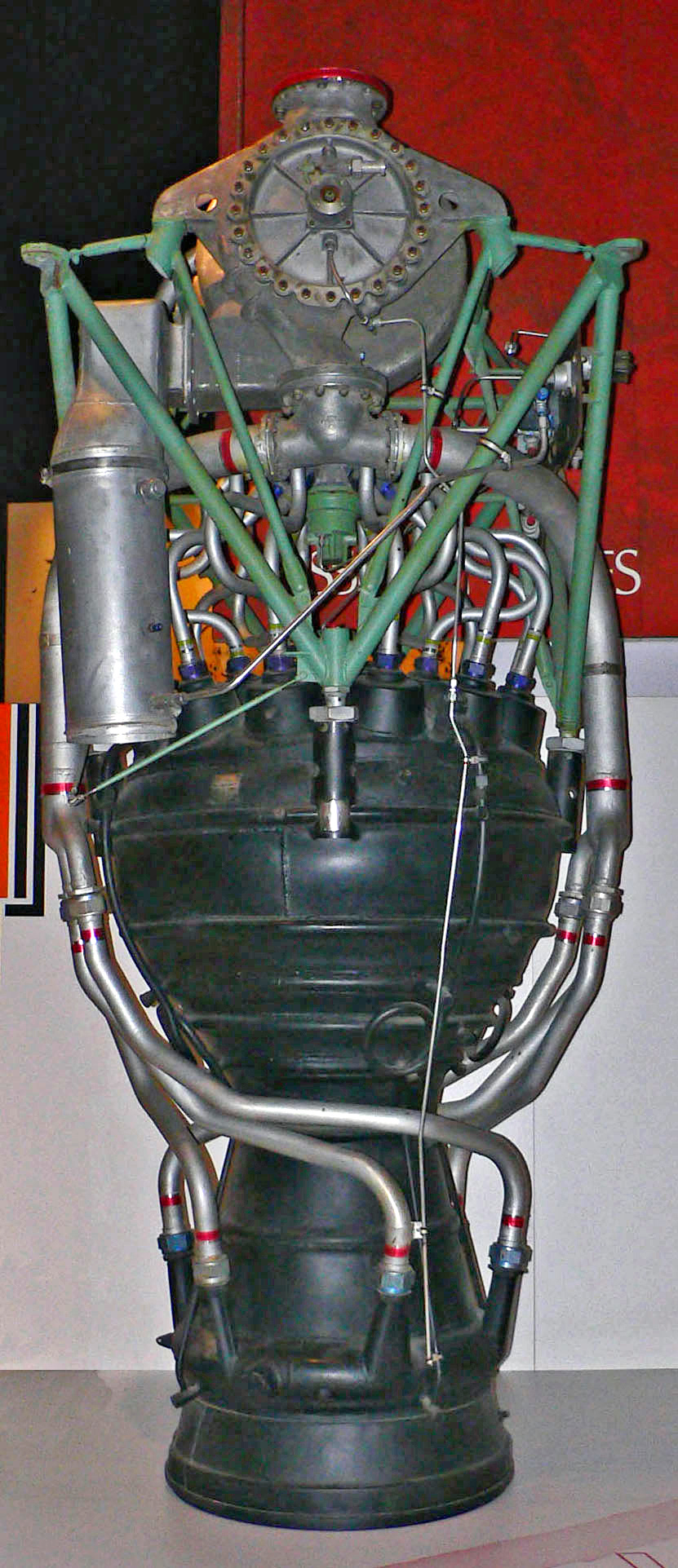 German V-2 rocket engine at the National Air and Space Museum, Washington, D.C.